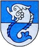 Coat of arms of the former city of Ķemeri, Latvia. “Per fess Azure and Argent a dolphin counterchanged.”